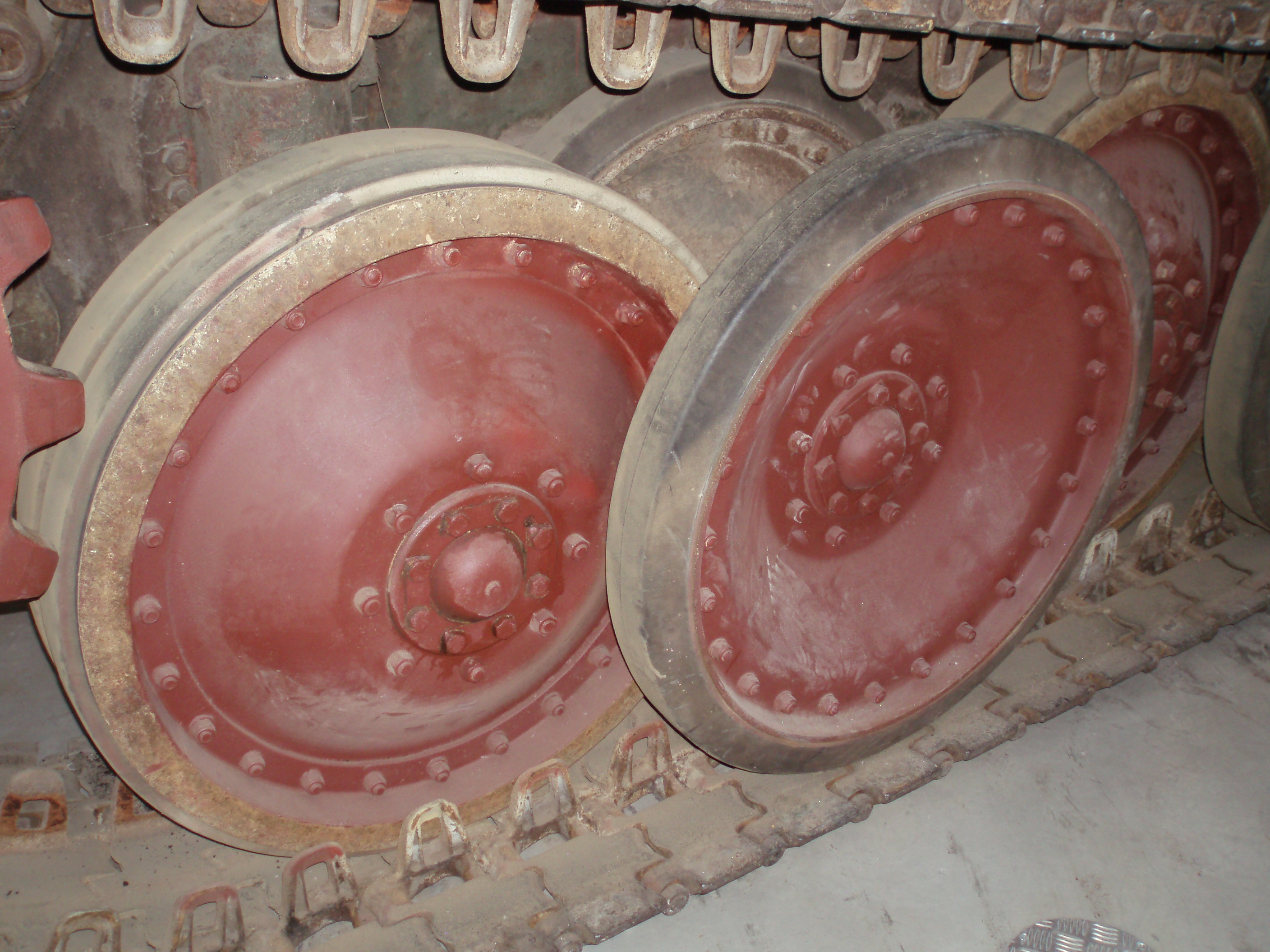 Bovington Tank Museum 106 panther